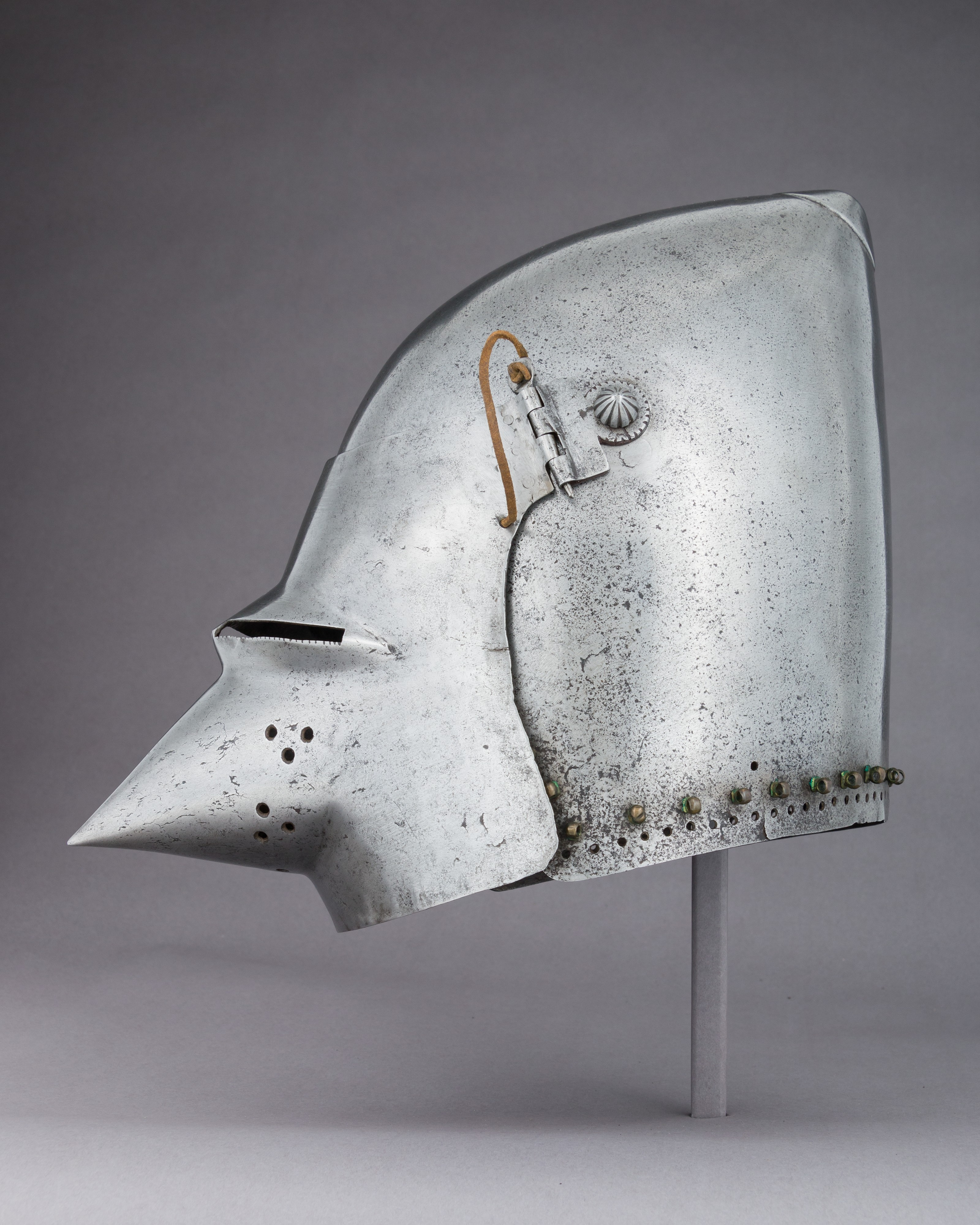 German; Visored bascinet; Helmets